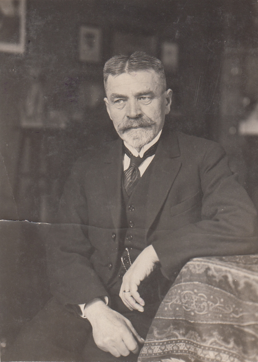 A photograph of Martin Kukučín (1860-1928), Slovak prose writer, dramatist and publicist. Inventory number 2427. Srpski (latinica): Fotografija Martina Kukučina (1860-1928), slovačkog proznog pisca, dramaturga i publiciste. Inventarski broj 2427.